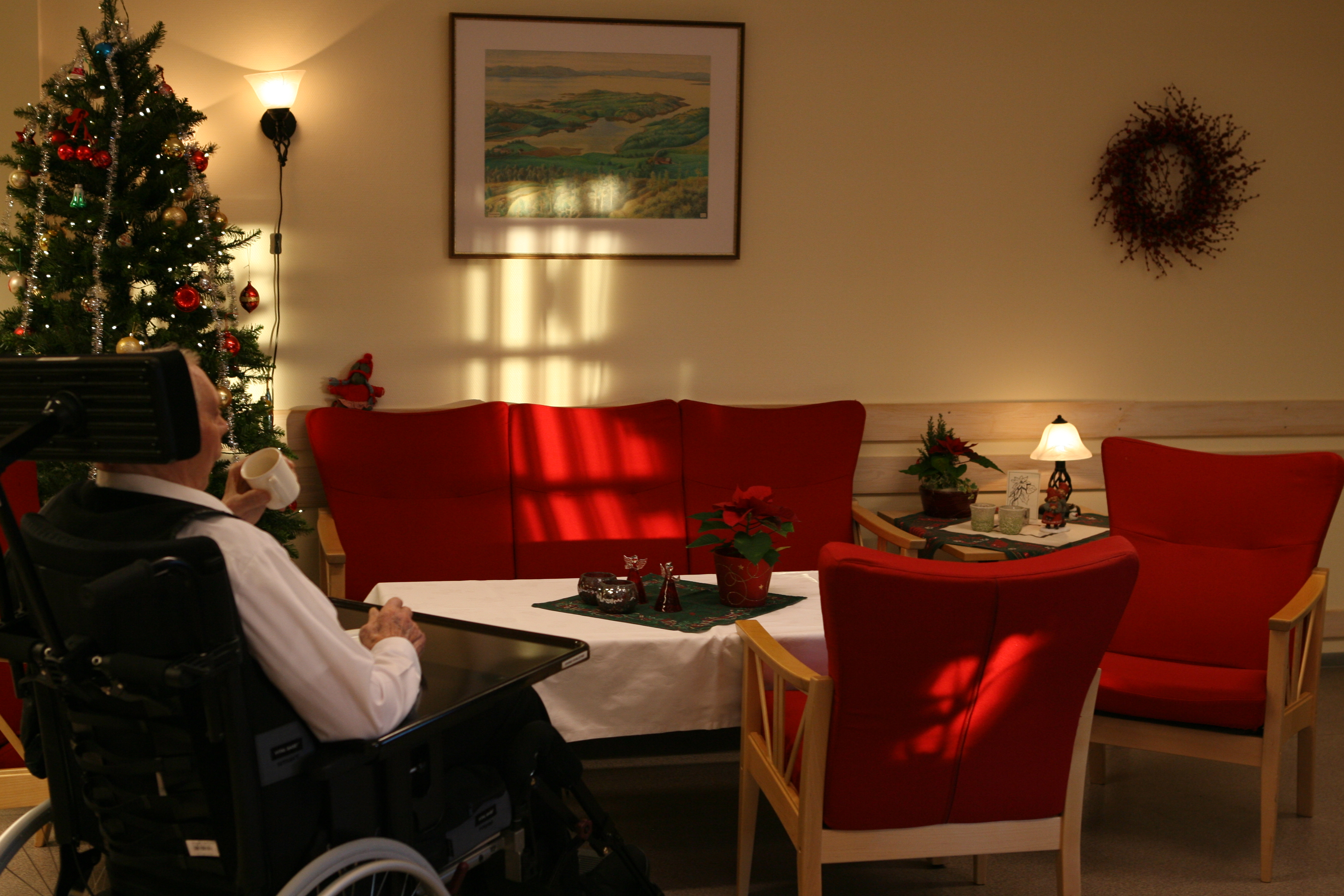 Elderly man drinking coffee at Fosnes Nursing Home in Norway at Christmas Time.